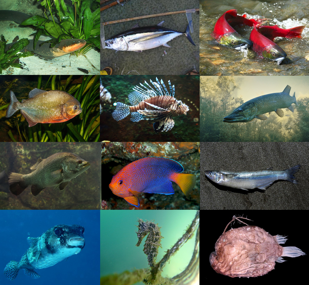 Teleostei fish